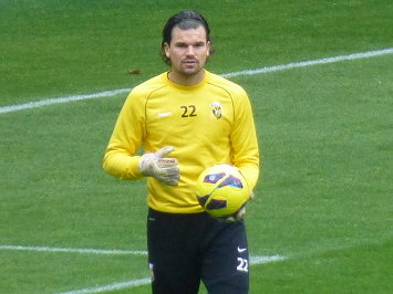 Piet Velthuizen in GelreDome prior to the football match Vitesse vs. FC Twente